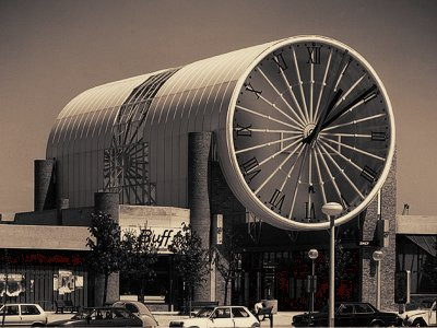 Cergy-Saint-Christophe Station, Cergy.